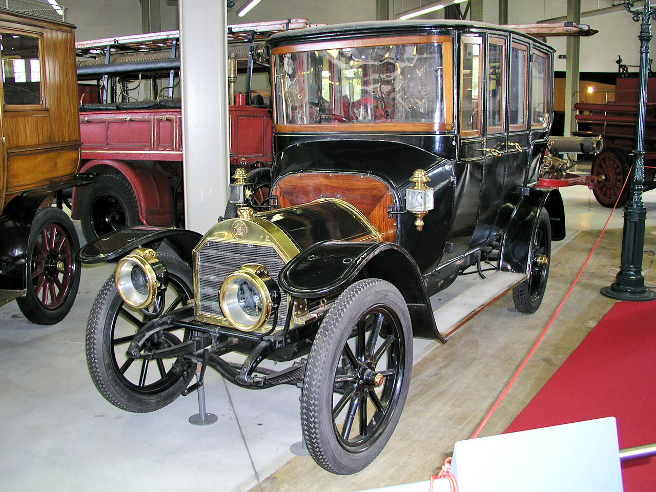 car with 1994 cc 4-cylinder pair cast L-head engine, made in Belgium by Fabrique Nationale d'Armes de Guerre; front-side view